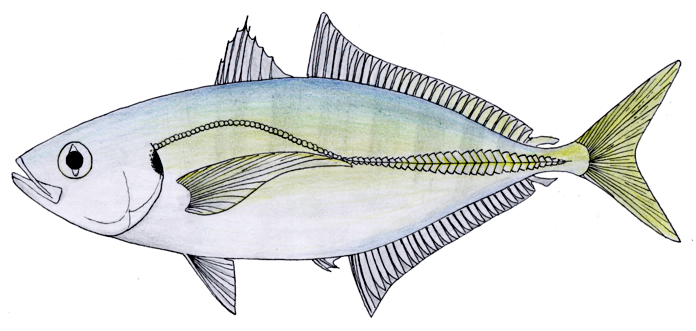 As above, better contrast